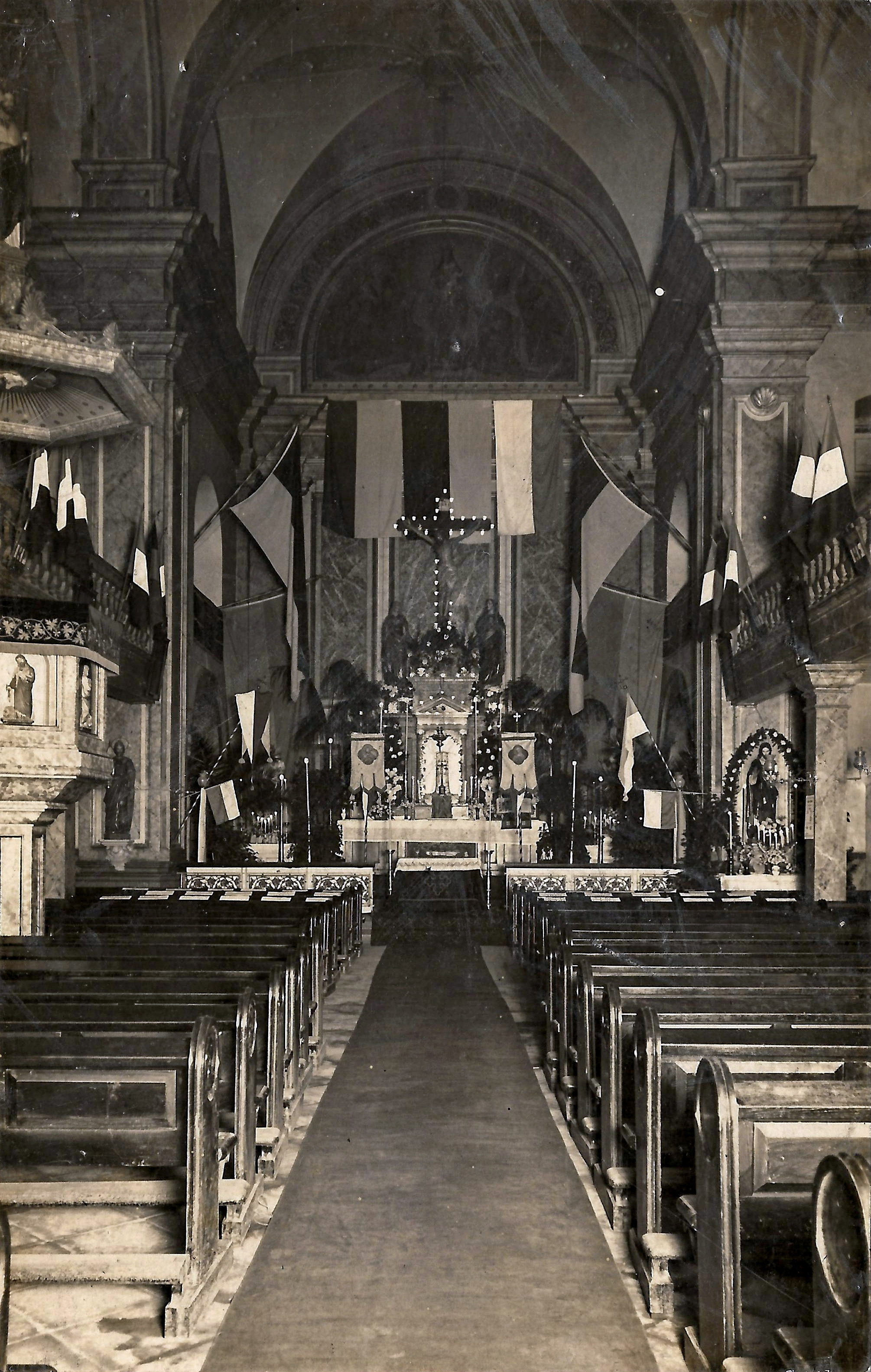 Interior of the Karmeliterkirche in Koblenz, used as French garrison church during the occupation, around 1924.